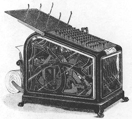 Quite possibly the first model produced